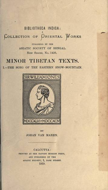 Frontispiece of Minor Tibetan texts.by Johan van Manen